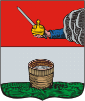 Kadnikov (Vologda oblast), coat of arms (1781)